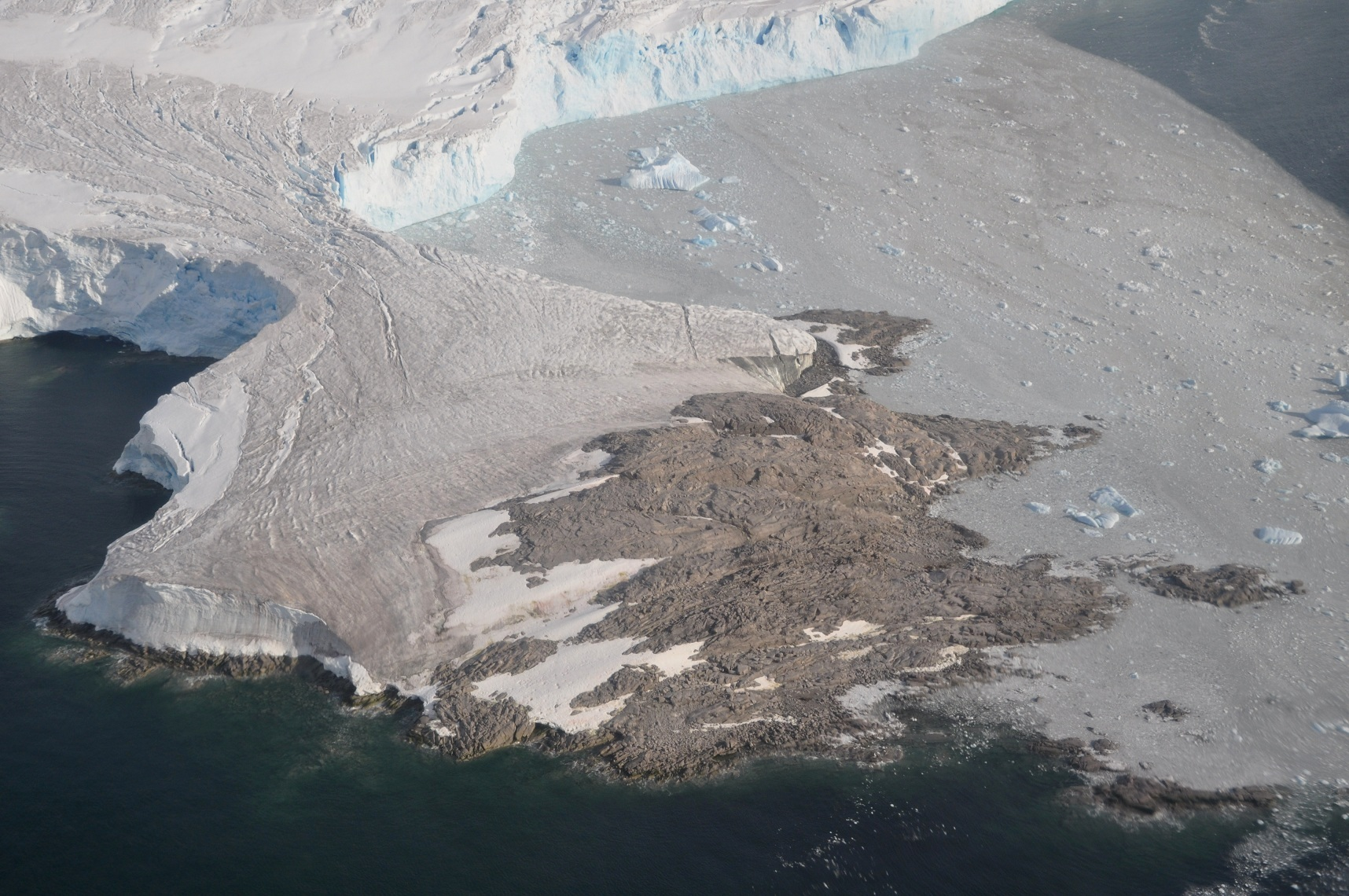 Mackay Point is a tiny peninsula (450 m at its widest point) protruding into Laubeuf Fjord from the Wormald Ice Piedmont on the eastern side of Adelaide Island, Antarctica. It lies 4 km NNE of the British Rothera Research Station.